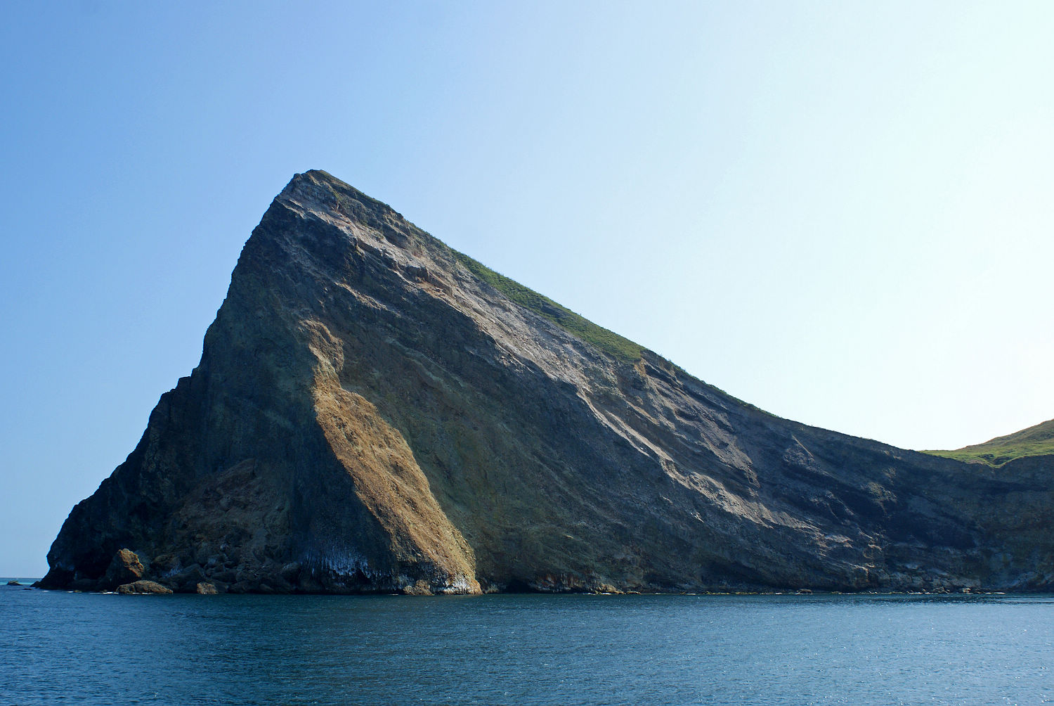 Gueishan Island 龜山島－龜首丘